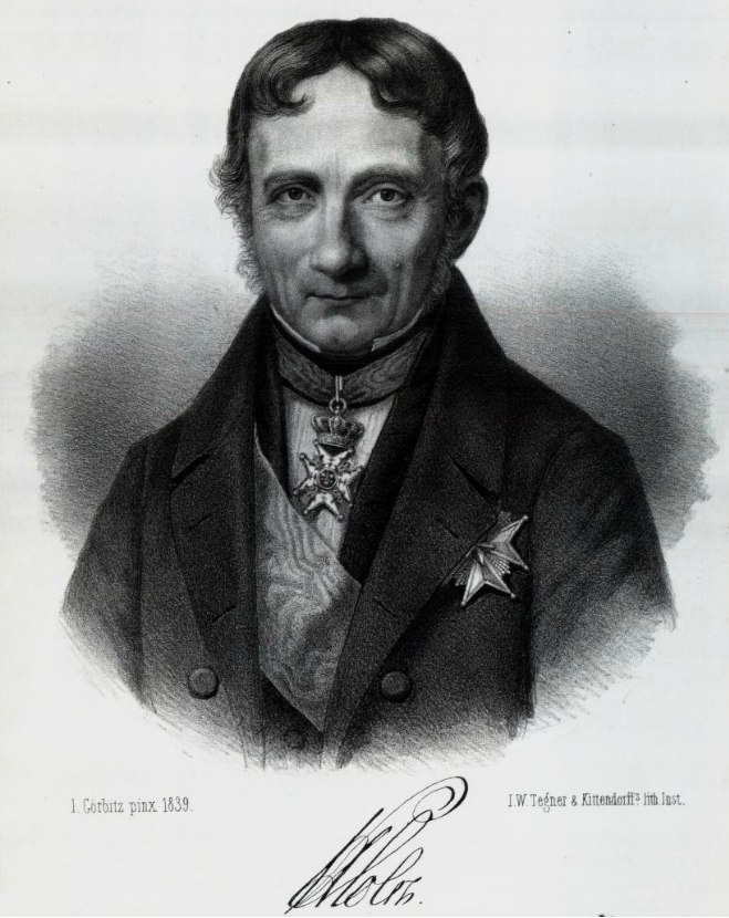 Poul Christian Holst, Norwegian lawyer, state secretary and minister.